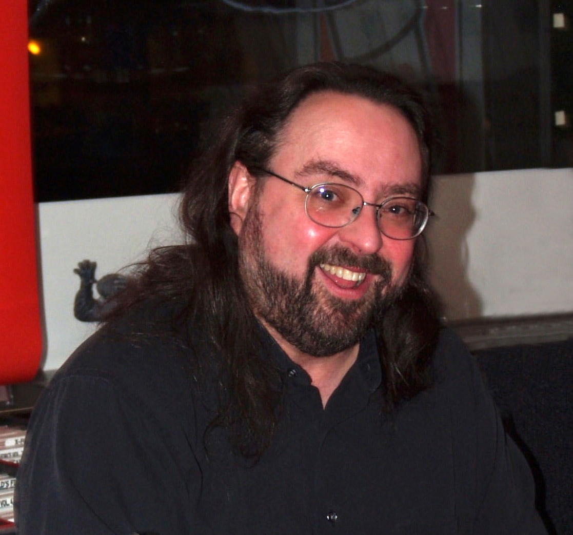 Comics writer Bryan J.L. Glass at a February 28, 2014 signing at Midtown Comics in Manhattan for his comics series, Furious. This photo was created by Luigi Novi. It is not in the public domain, and use of this file outside of the licensing terms is a copyright violation.